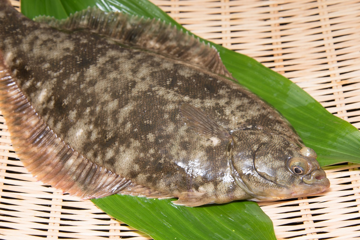 Shiroshita Karei (a.k.a. Marbled flounder, Pleuronectes yokohamae)